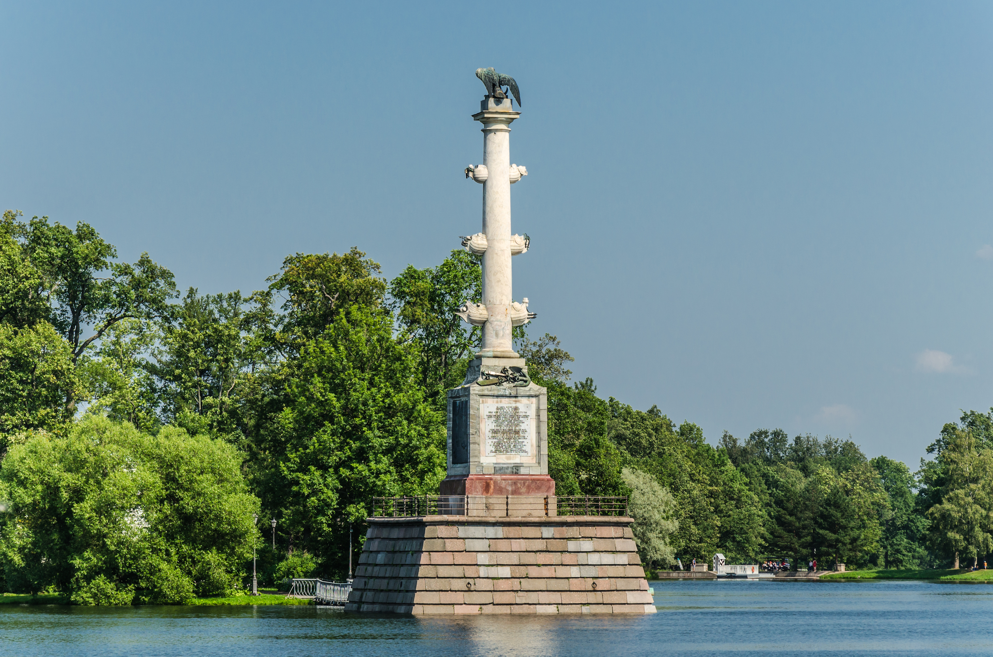 Chesme Column in Catherine park of Tsarskoe Selo, Saint Petersburg